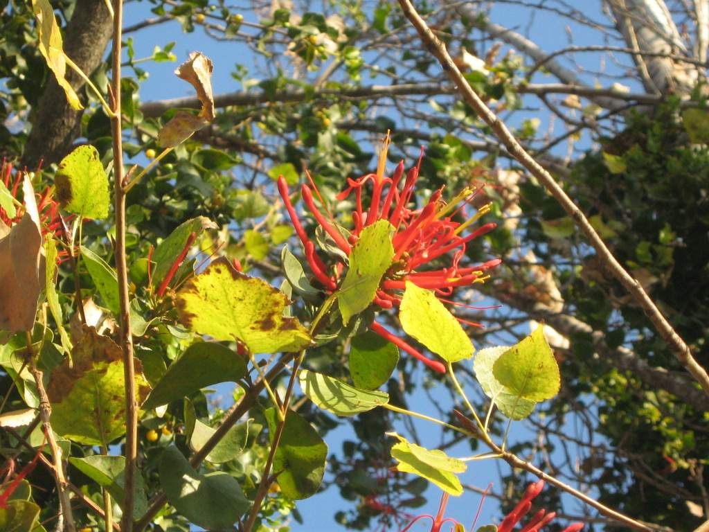 Details of Tristerix corymbosa flowers